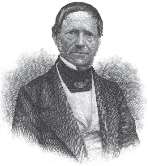 František Palacký